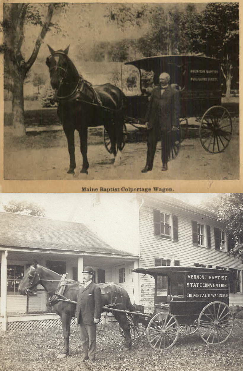 Photographs of Maine (1905) and Vermont (1915) Baptist Colportage Wagons, with Colporter.